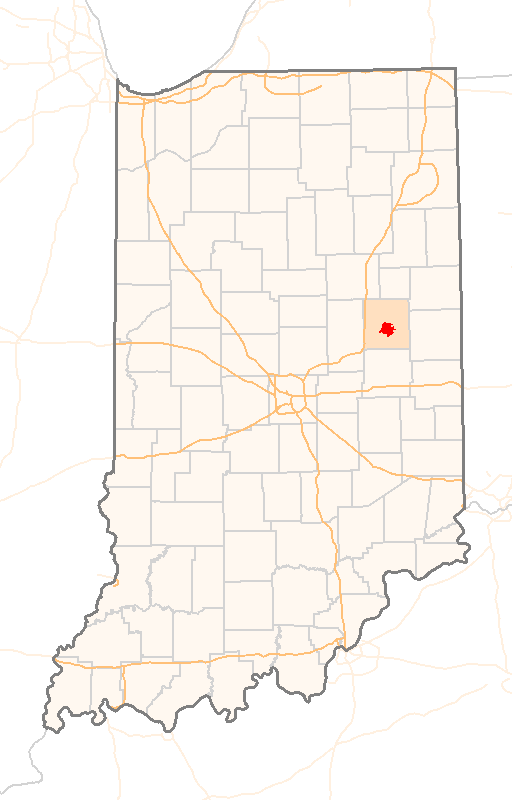 Red Dot map of Indiana, showing the location of Muncie